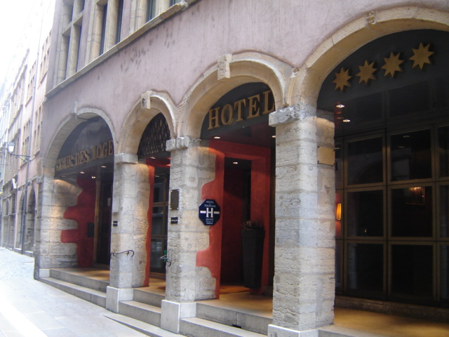 Facade of the Cour des Loges, at No. 6 rue du Boeuf, in the 5th arrondissement of Lyon